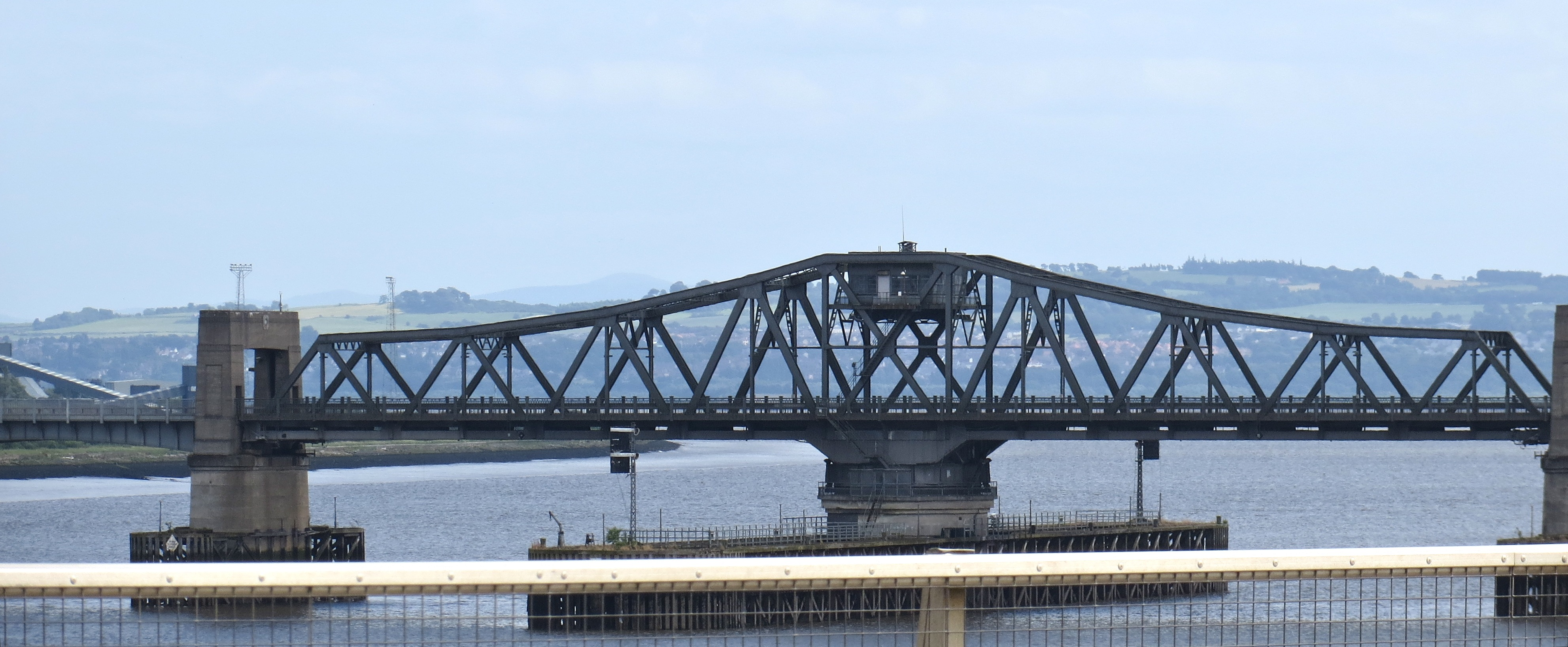 The swing span of Kincardine Bridge, viewed from the Clackmannanshire Bridge, UK. The swing mechanism is no longer in use.